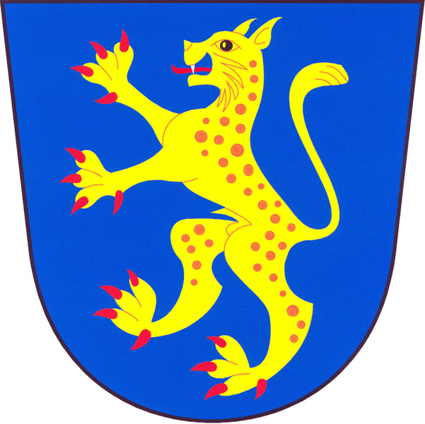 Coat of amrs of Narysov , District Příbram, Czech Republic